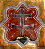 Chronicon Pictum